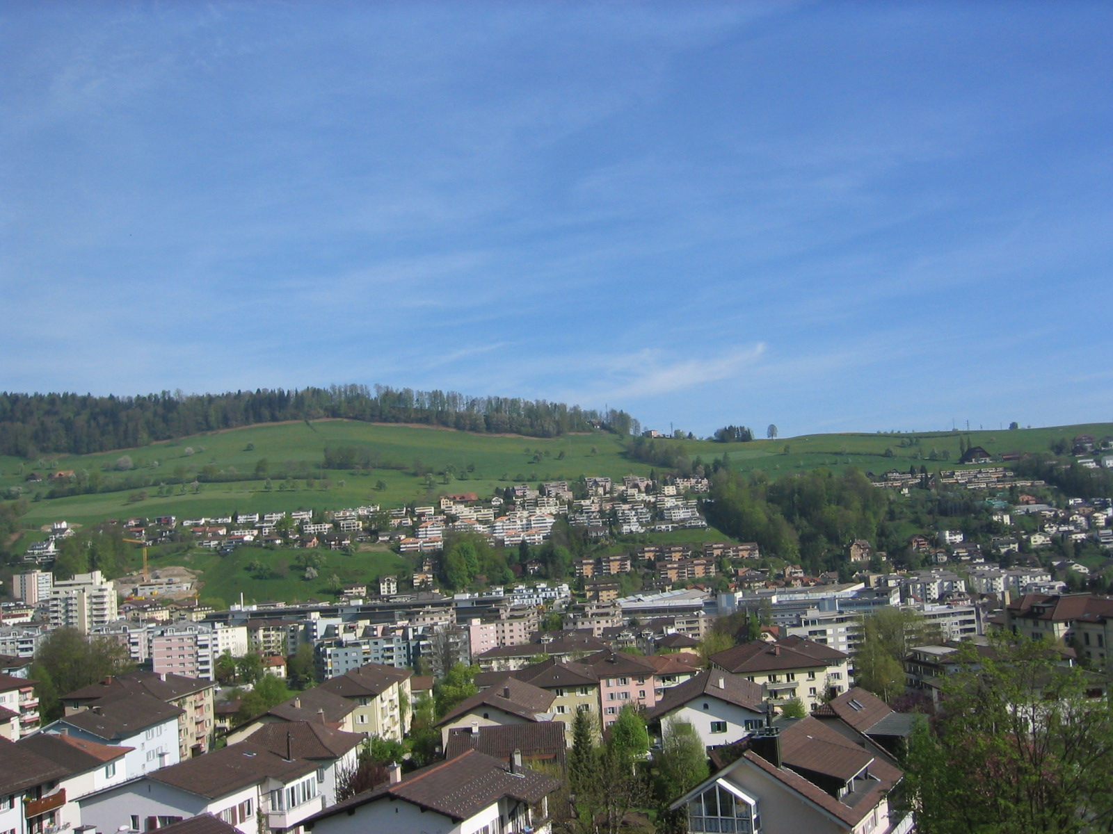 Pilatus